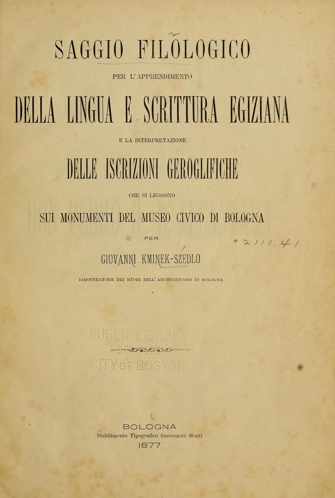 First page of Saggio filologico per l'apprendimento della lingua e scrittura egiziana... by the Czech-Italian Egyptologist Giovanni Kminek-Szedlo.